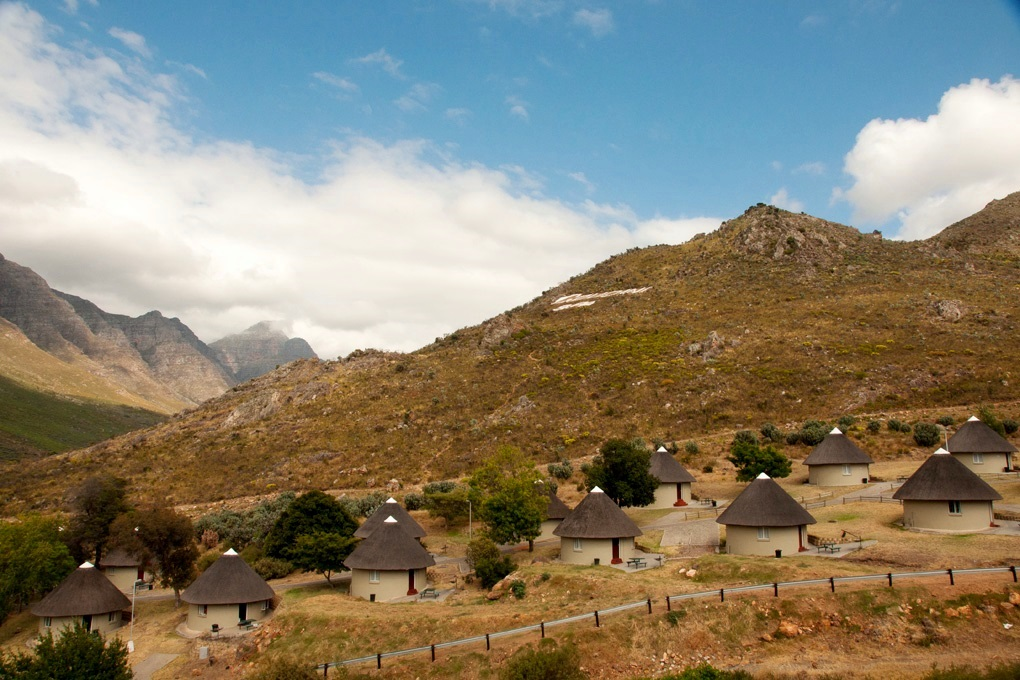 View of the chalets at Goudini Spa in Rawsonville, South Africa in the Western Cape